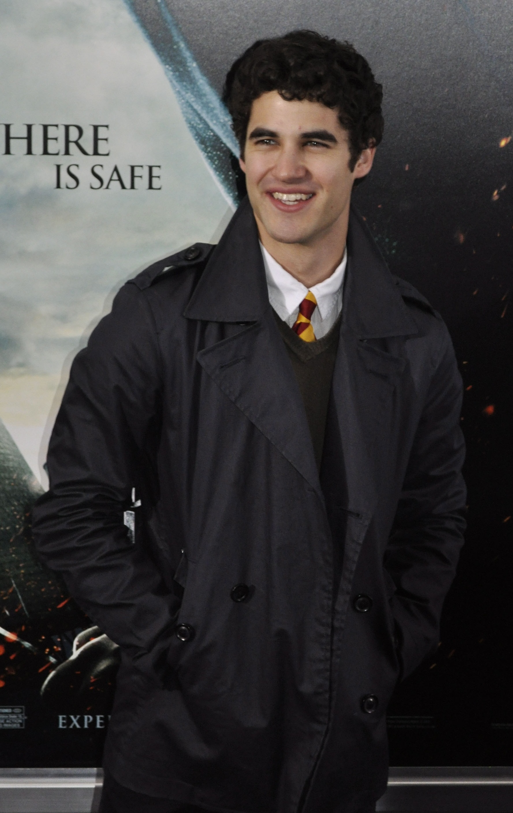 Darren Criss at the film premiere of Harry Potter and The Deathly Hallows in Alice Tully Center, New York City in November 2010.